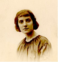 Flore Levine-Cousyns (youth photo)